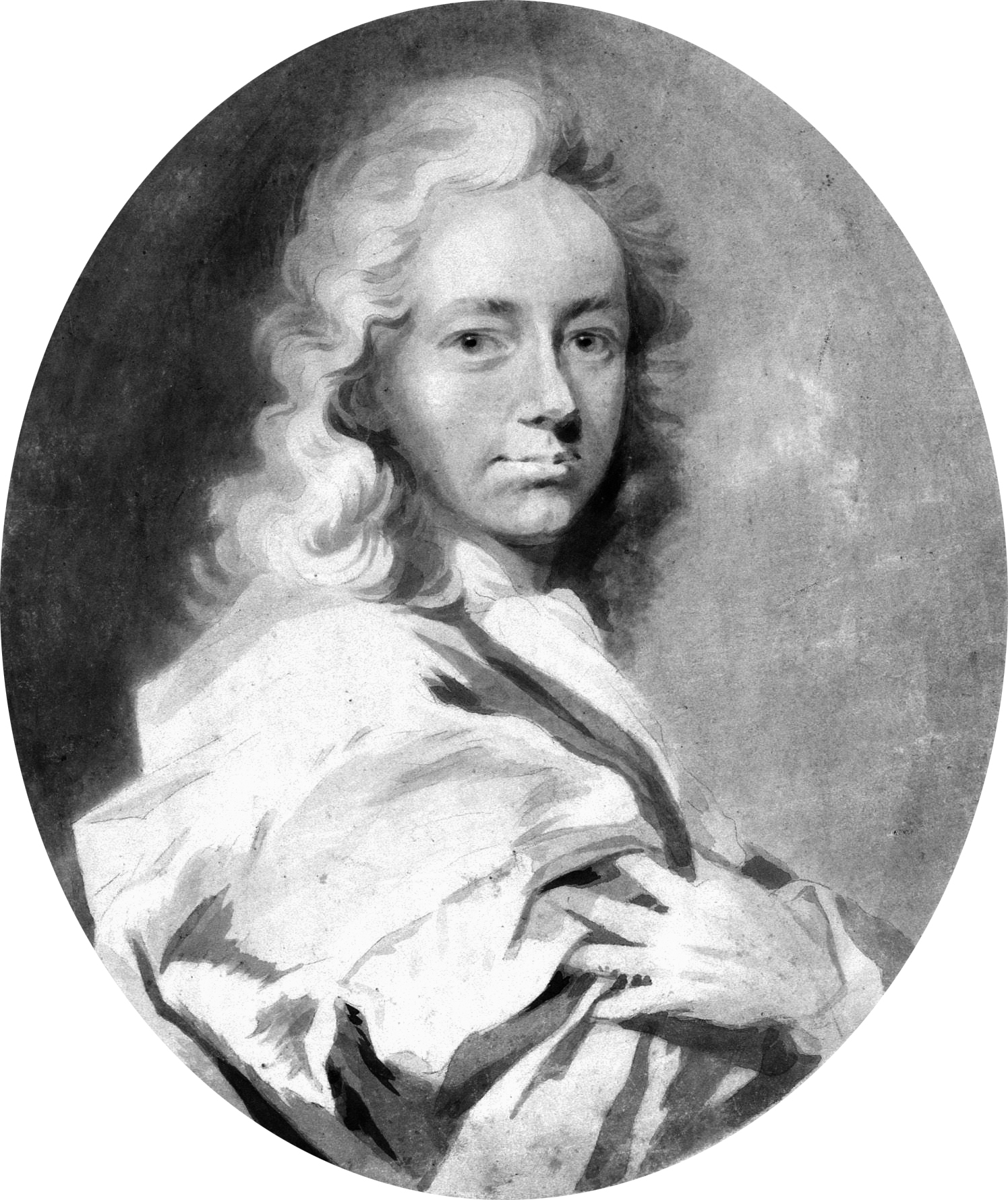 Philipp von Zesen (1619-1689) drawing pencil and brush c. 1700